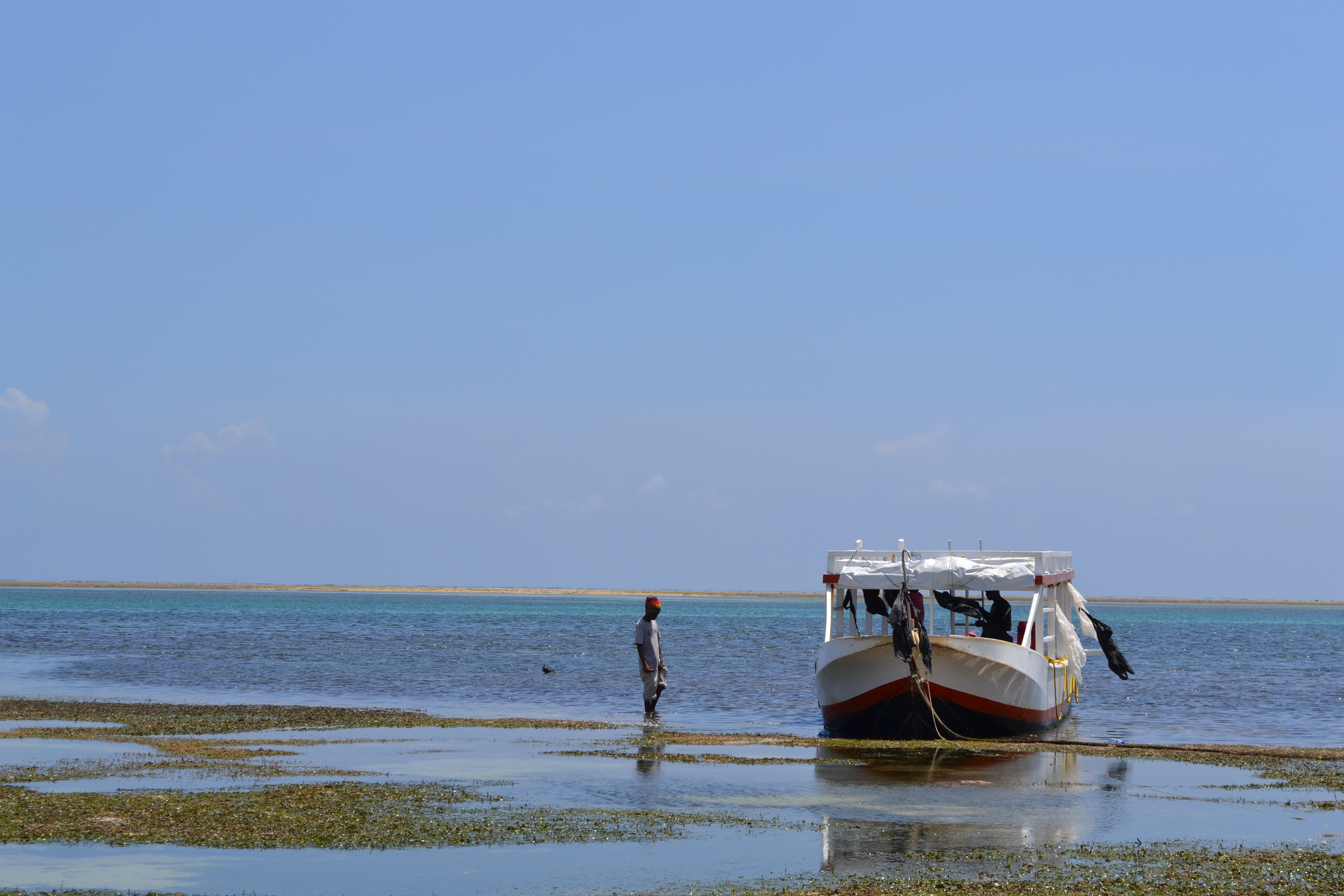 View facing out to sea on Nyali Beach, during low tide and still conditions (no wind), next to the Voyager Beach Resort hotel, in Mombasa, Kenya.